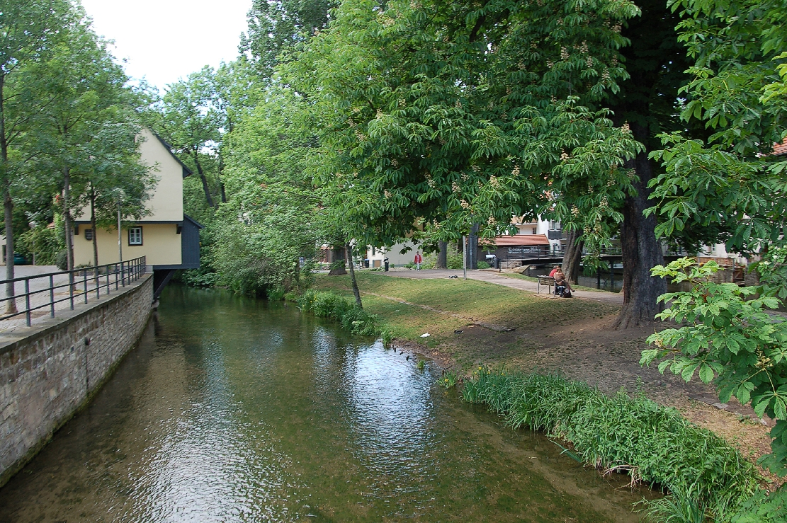 Erfurt, view over Breitstrom river with Dämmchen isle (right) and Bursa Pauperum (left)